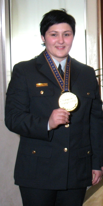 Lucija Polavder cropped